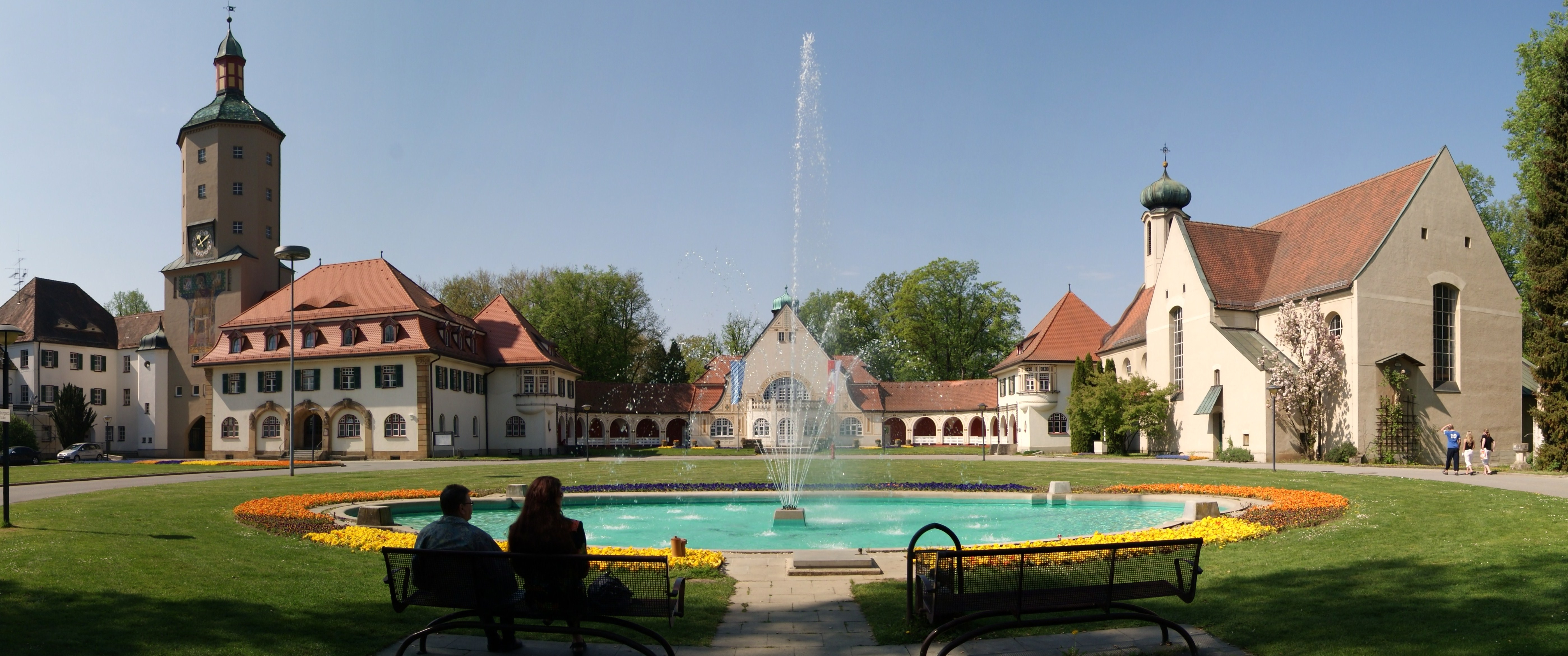 Mainkofen